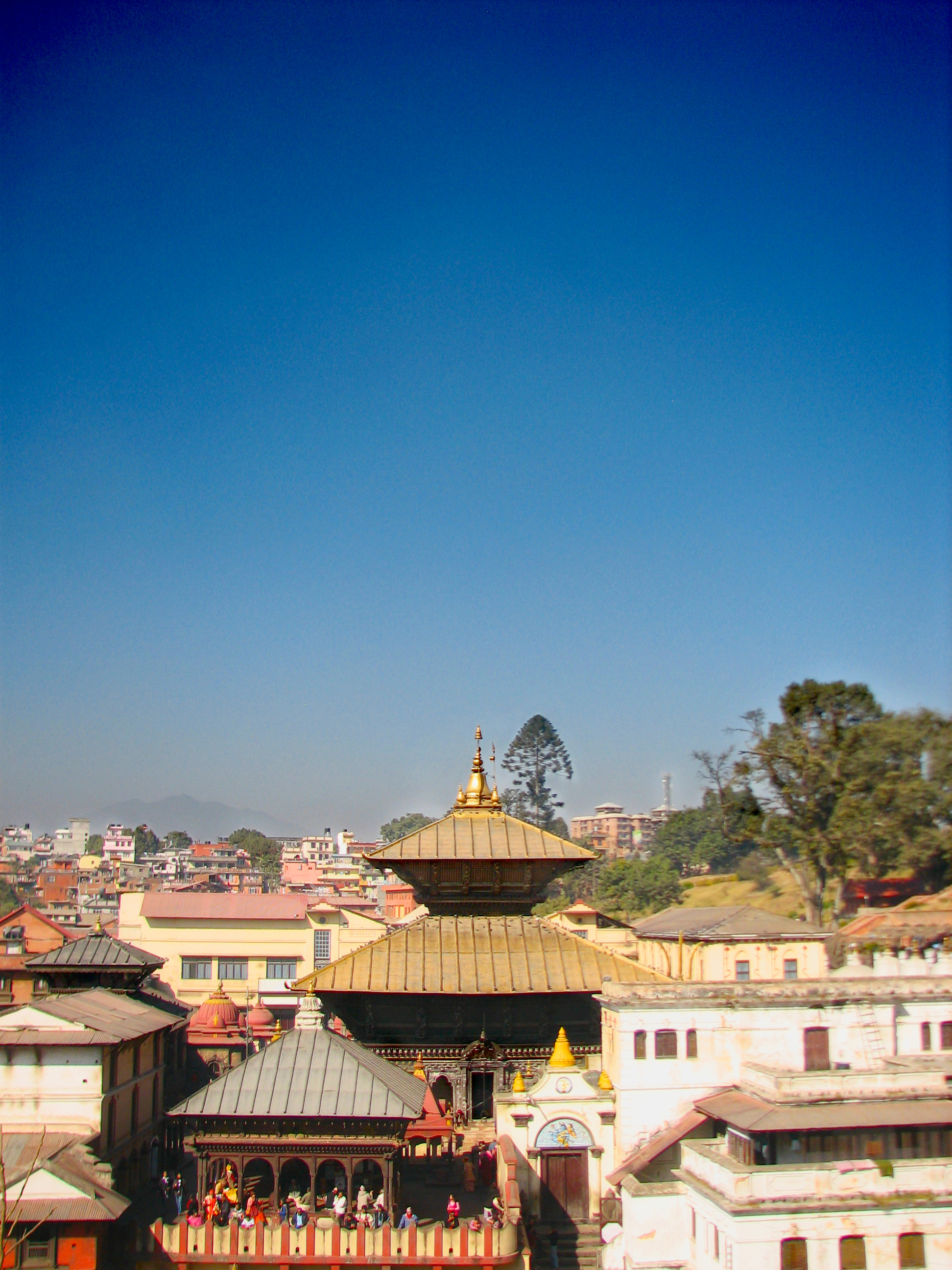 Pashupatinath temple (पशुपतिनाथ मन्दिर) is the biggest Hindu temple of Lord Shiva in the world located on the banks of the Bagmati river in the eastern part of Kathmandu, the capital of Nepal. The temple served as the seat of national deity, Lord Pashupatinath, until Nepal was secularized. The temple is listed in UNESCO World Heritage Sites list. Believers in Pashupatinath (mainly Hindus) are allowed to enter the temple premises. Non-Hindu visitors are allowed to have a look at the temple from the other bank of Bagmati river.